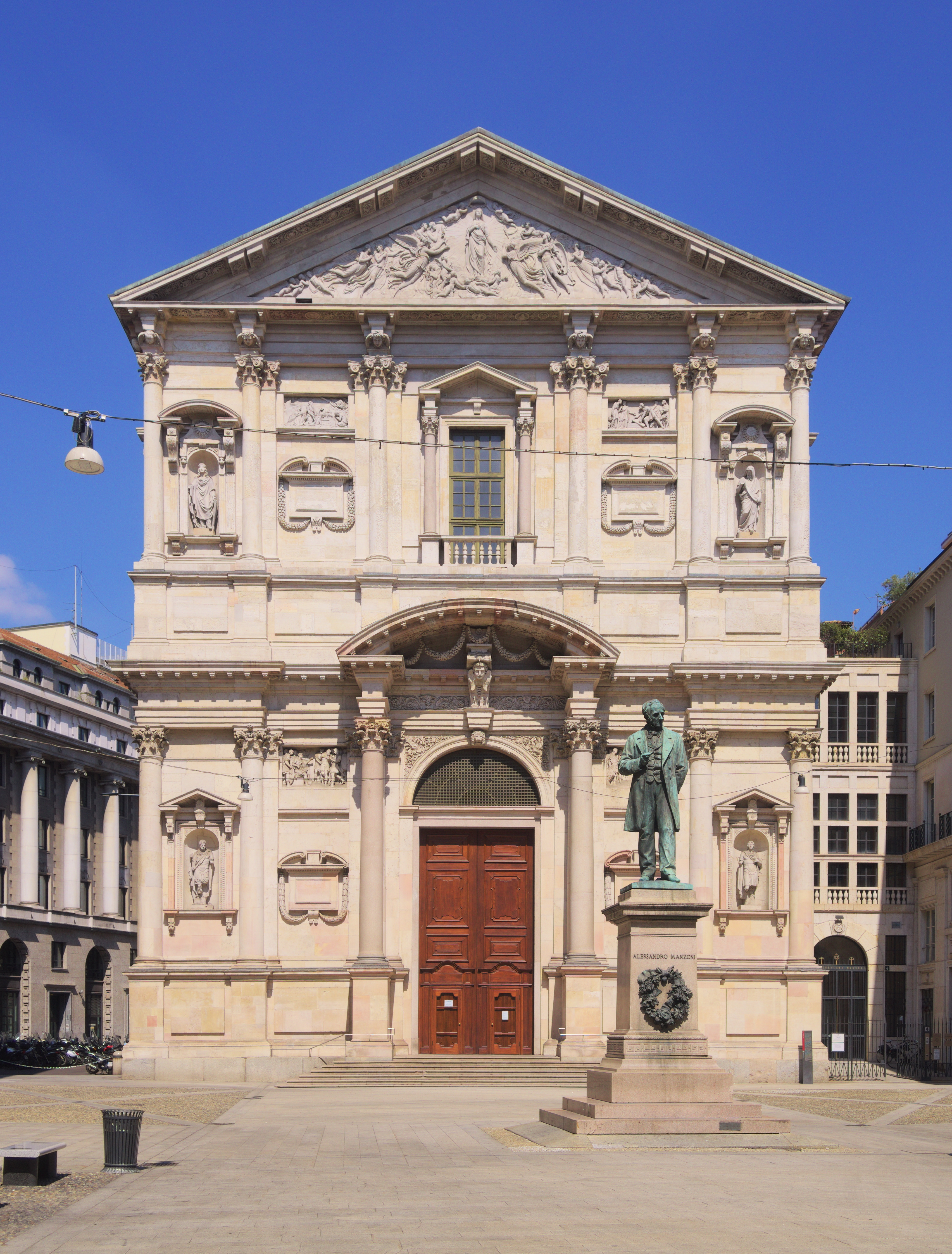 Facade of San Fedele, with the Monument to Alessandro Manzoni, Milan.